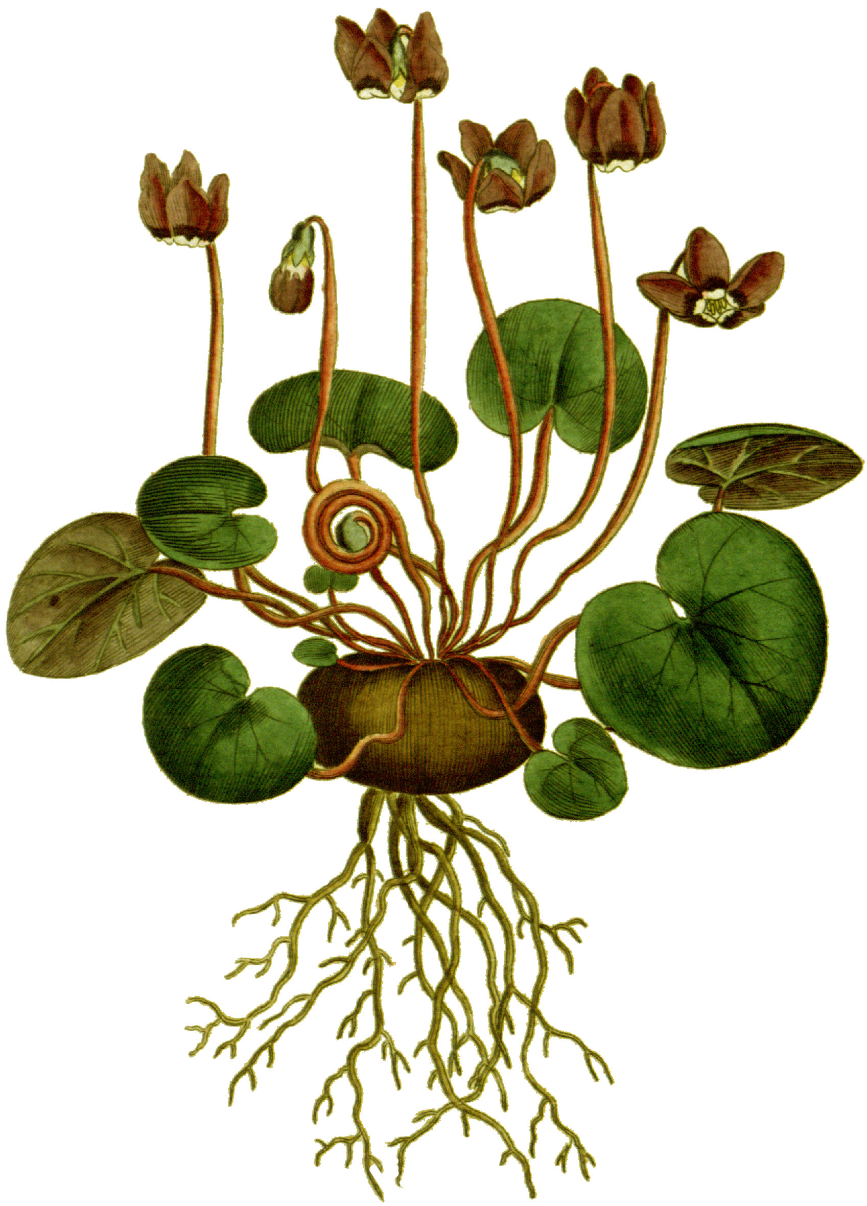 Plate 4, Pentandria monogynia (Cyclamen coum) From Curtis's Botanical Magazine, Volume 1. Edited from the original, plant image has been masked so that plant could be color corrected independent of paper.